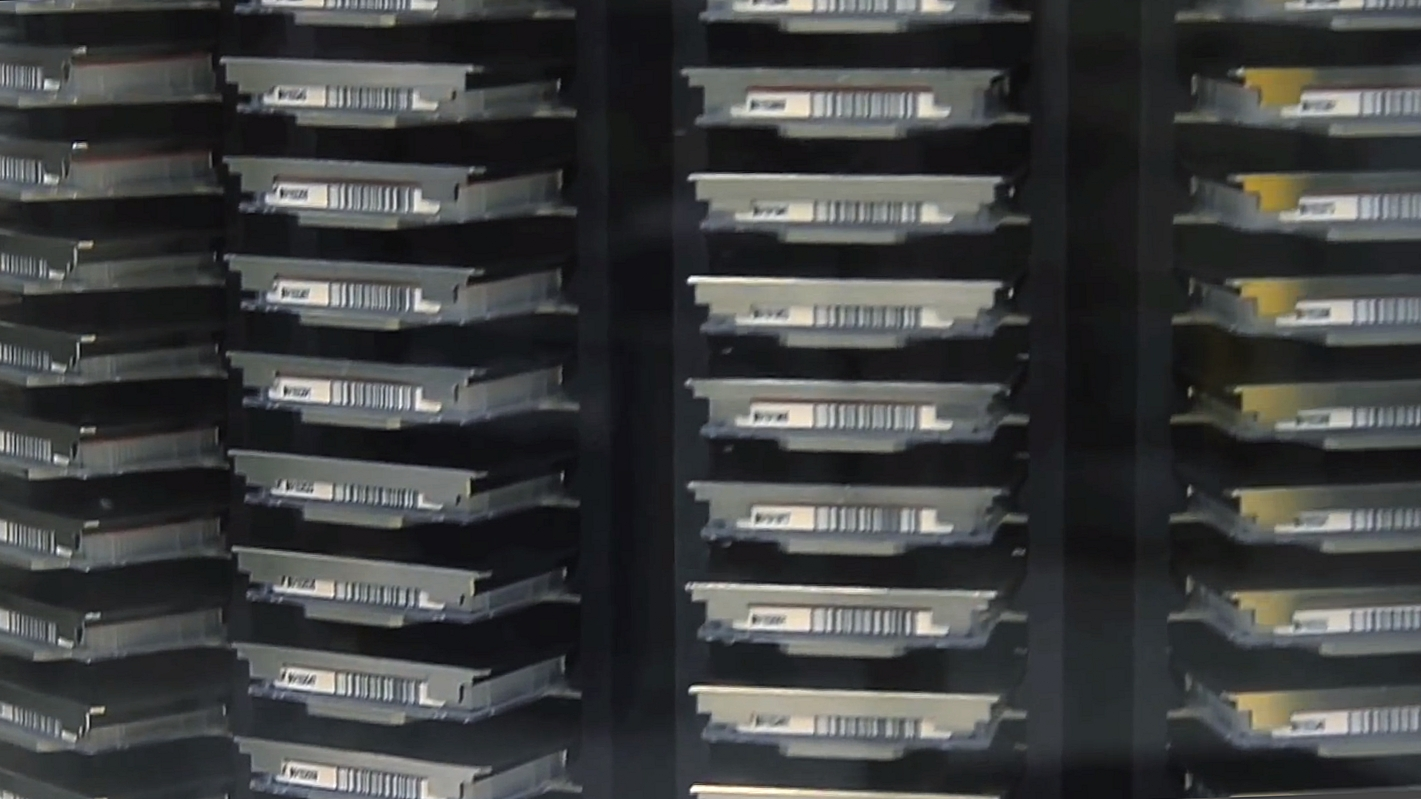 A carousel system to store assay plates used in high-throughput screening process. This image is from video titled "Using 3D Printing to Advance Science" created by NIAID.